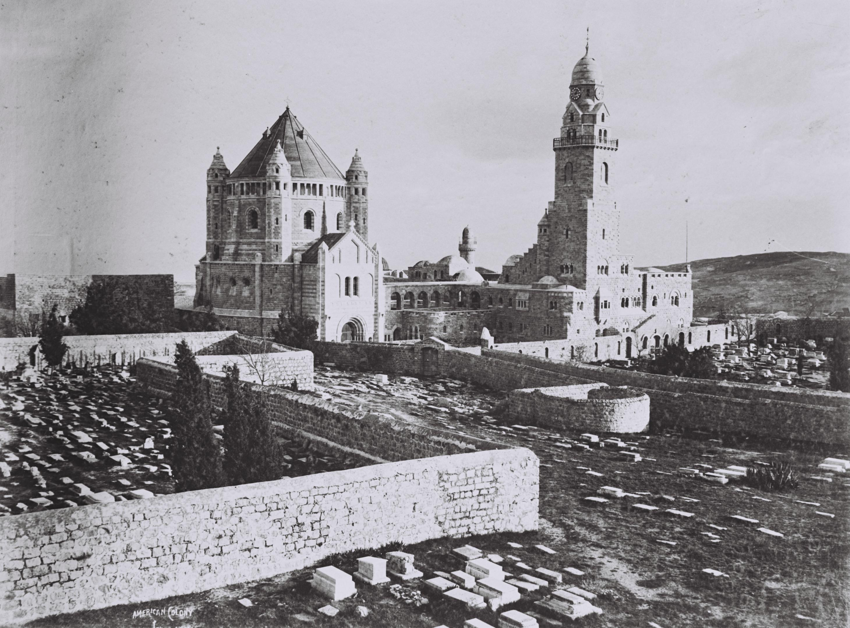 GENERAL VIEW OF DORMITION CHURCH ON MOUNT ZION IN JERUSALEM. (COURTESY OF AMERICAN COLONY) כנסיית דורמיציון על הר ציון בירושלים.